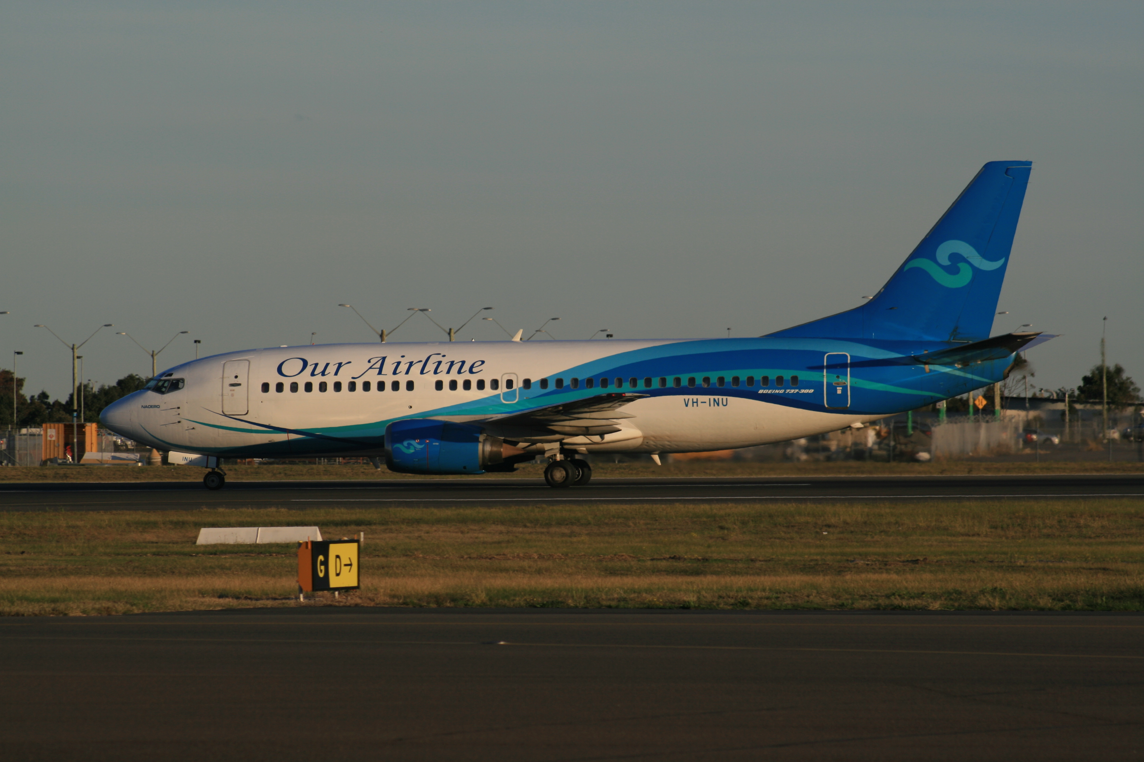 Our Airline's sole aircraft is a Boeing 737-300 registered VH-INU, seen here at Sydney International Airport. Digital photo of VH-INU taken by YSSYguy on August 28 2007 & uploaded for use in article about Our Airline.